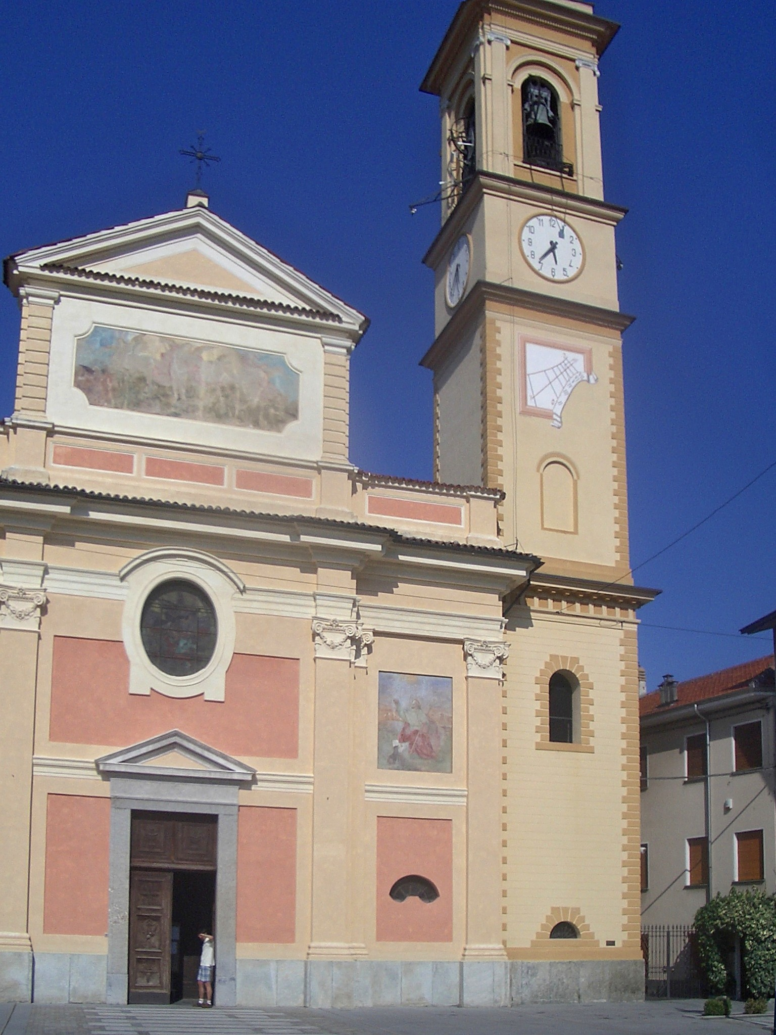 Scarmagno, the parish church (Chiesa di San Michele Arcangelo)